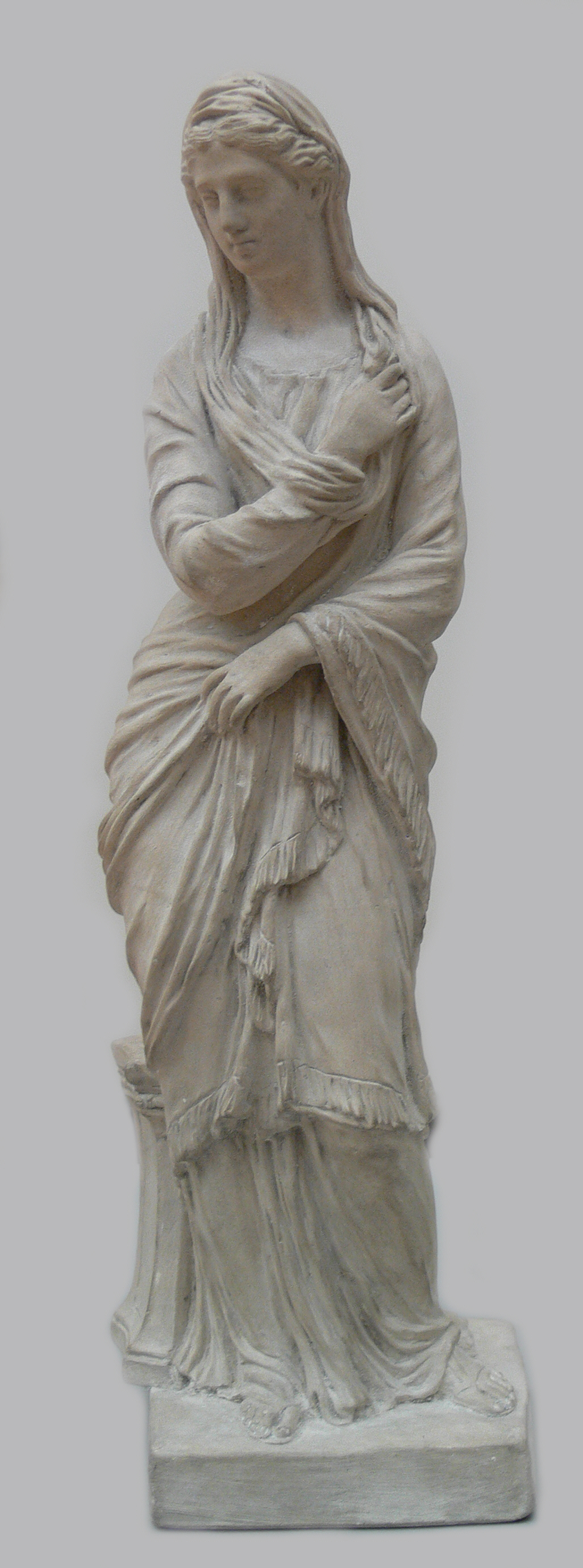 Johann Valentin Sonnenschein: Vestal Virgin, c. 1762–1767, coloured plaster. Skulpturensammlung (Inv. no. 7959, acquired in 1920), Bode-Museum Berlin.